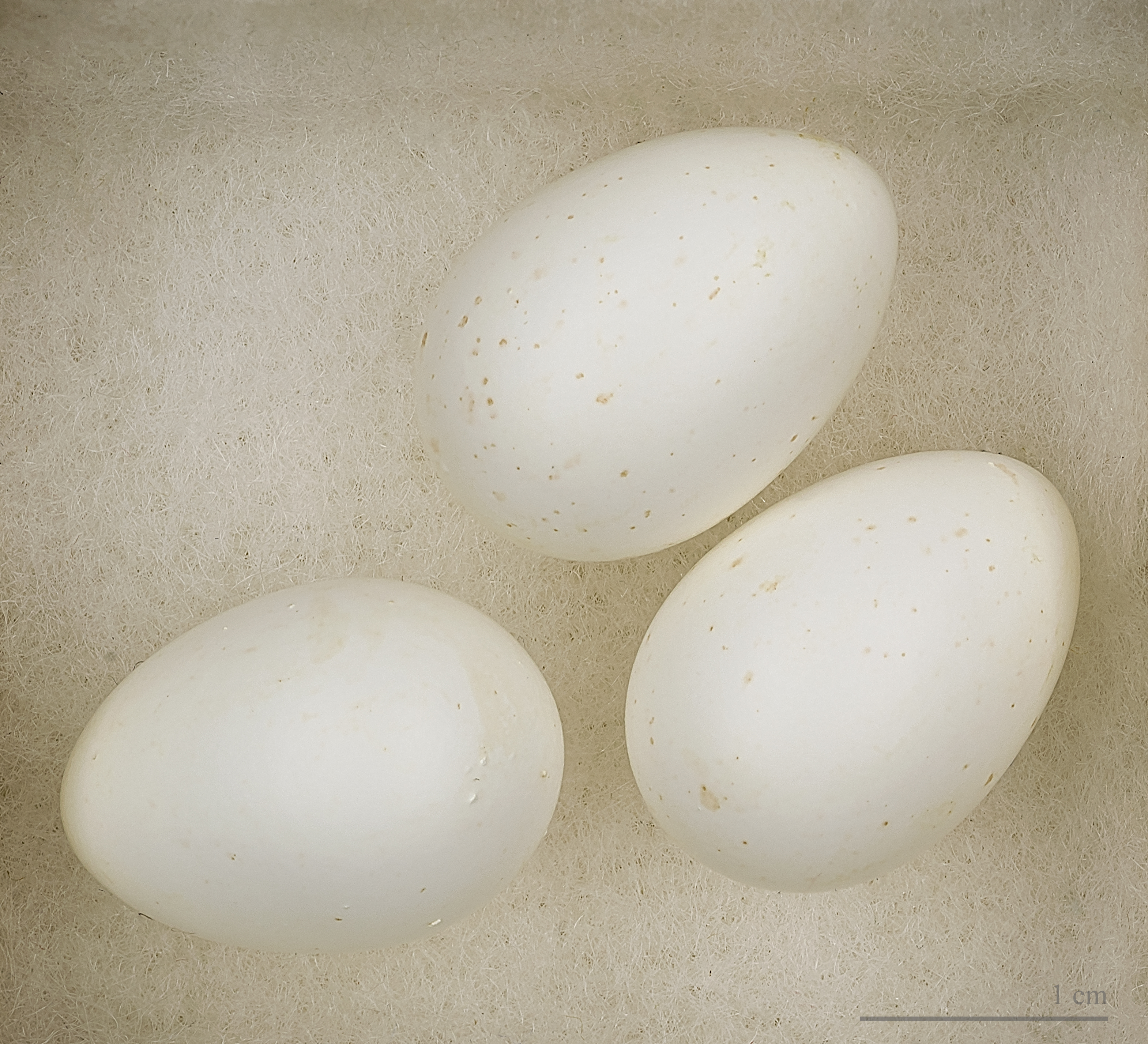 Egg of Lesser Striped Swallow. Collection of Jacques Perrin de Brichambaut.